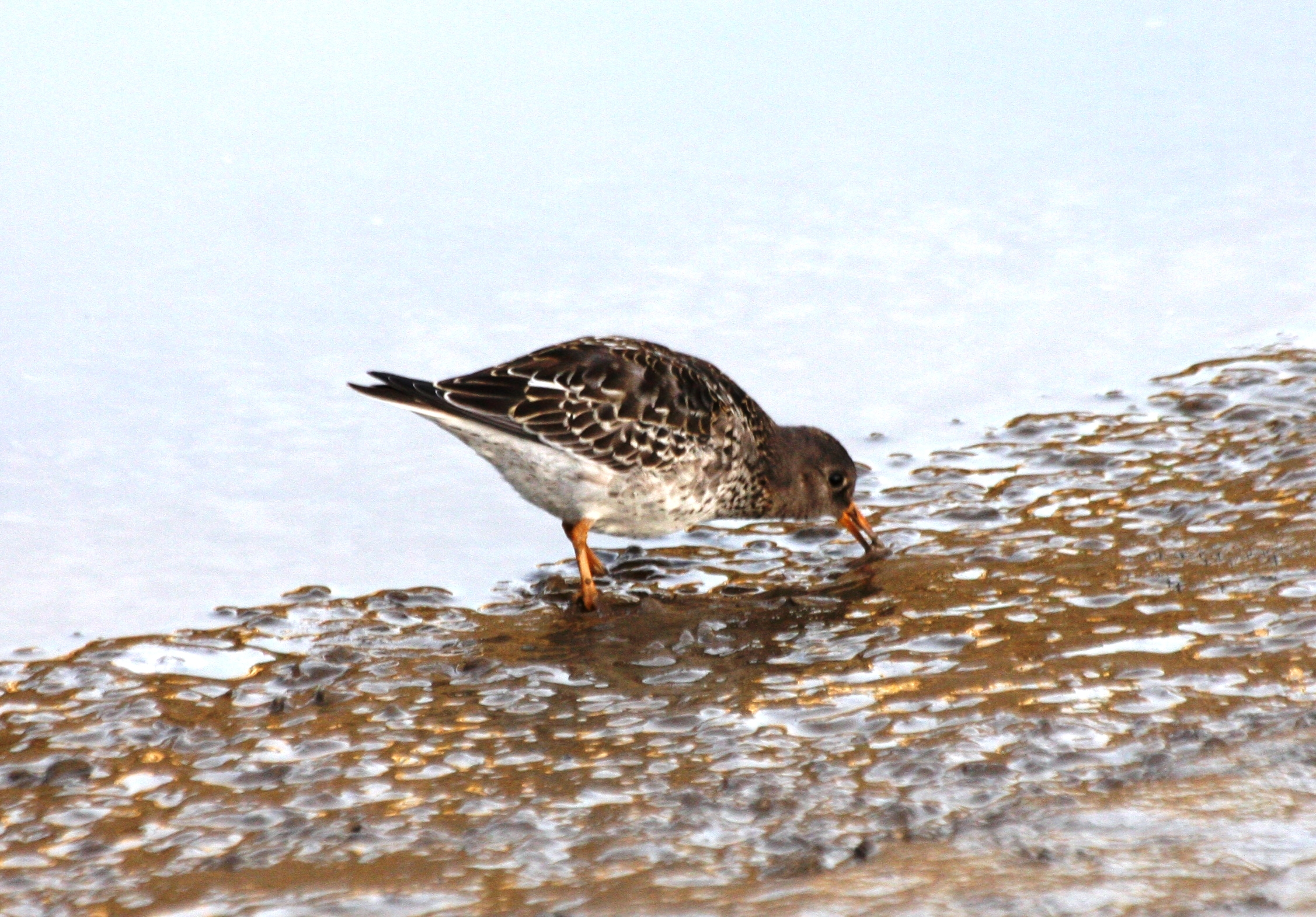 Image of Calidris maritime grazing in the inner Adventfjorden watten-area (tidal mudflats). Longyearbyen, Spitsbergen.